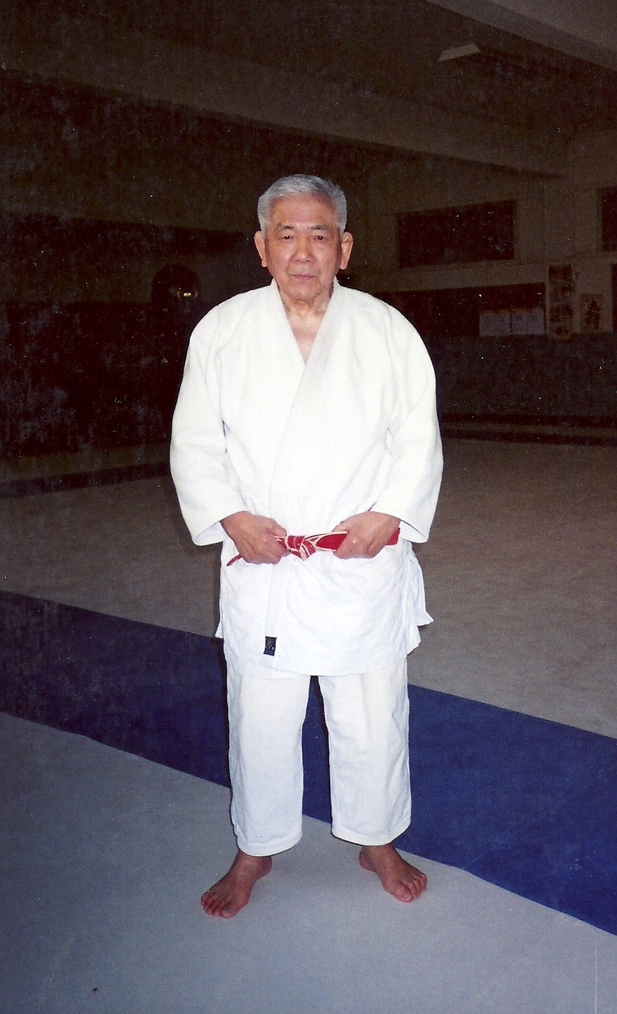 Shozo Awazu par Estelle Binant